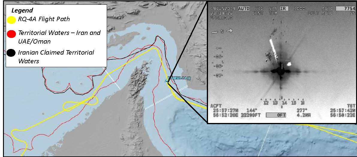 The ISR Flight path and grid plots for the RQ-4A shot down by Iran in the Strait of Hormuz. “This was an unprovoked attack on a U.S. surveillance asset that had not violated Iranian airspace at any time …” – Lt Gen Joseph Guastella, @USAFCENT Updated: Offering this to clarify our previous post. The legend of the graphic has been changed to reflect that the yellow line is the flight path of the U.S. Navy RQ-4A shot down June 20, 2019. Top right of the map is a surveillance infra-red photo of an apparent explosion taken at 19JUN2019 23:39:26, giving coordinates of ACFT 25°57′27″N 56°52′39″E / 25.9575°N 56.8775°E at 22909 feet and TGT (unclear) 25°57′42″N 56°58′22″E / 25.96167°N 56.97278°E or 25°57′42″N 56°50′22″E / 25.96167°N 56.83944°E Note: later the New Your Times commented on this image: "The images offered little context and initially included an incorrect description of the drone’s flight path" and "a senior Trump administration official said there was concern inside the United States government about whether the drone ... actually did violate Iranian airspace at some point." It also stated a Navy P-8A Poseidon took the photo of the drone being shot down.